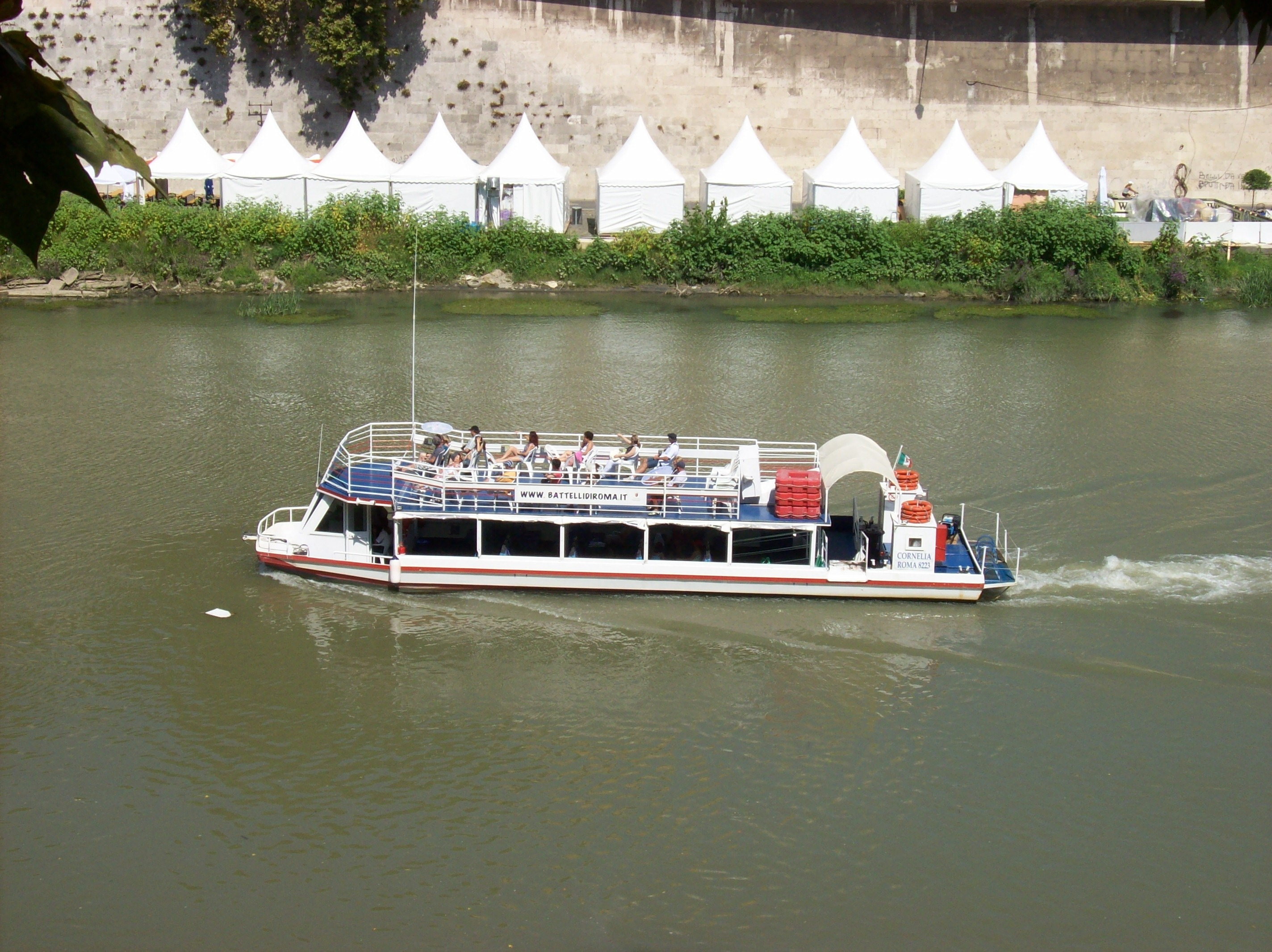 A riverboat on the Tiber, Rome, Italy